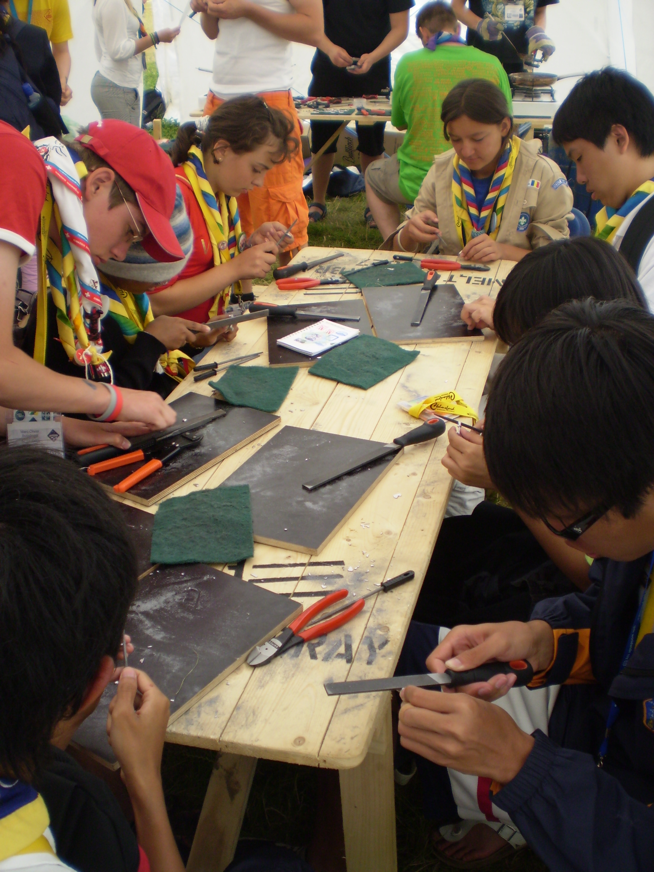 Manual crafts at AquaVille at the 21st World Scout Jamboree